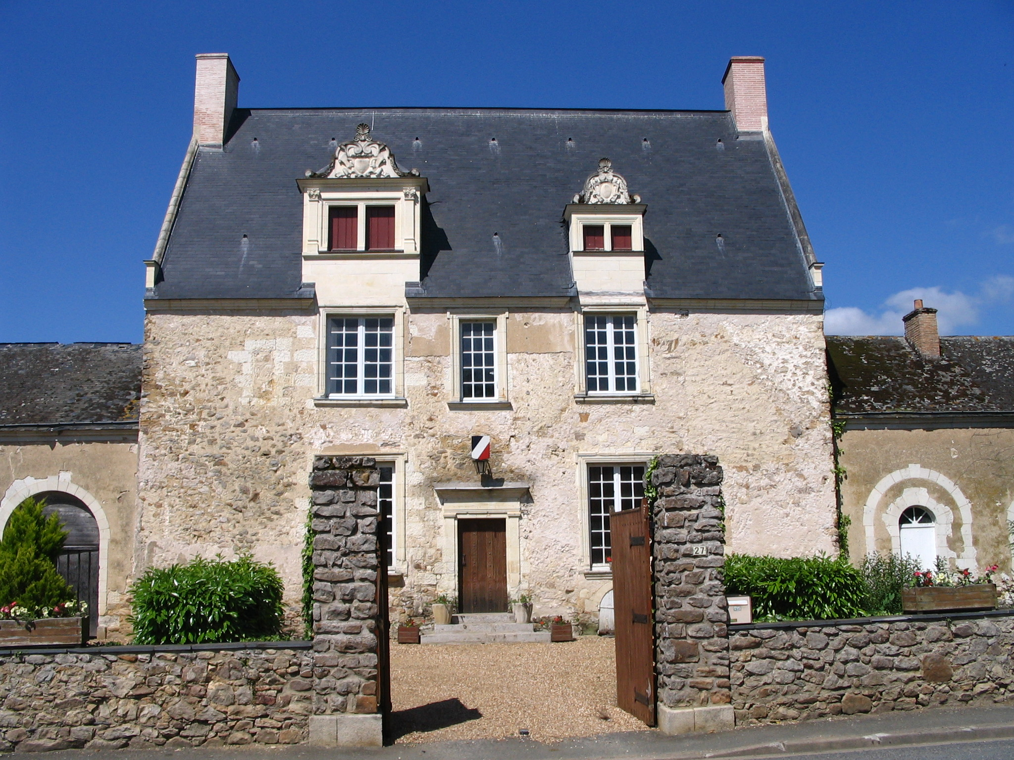 The town hall of Chemiré-sur-Sarthe, Maine-et-Loire, France.